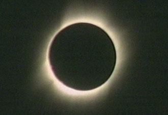 Solar eclipse 2006-03-28, The sun's corona, or outer atmosphere, is visible during totality -- when the sun is totally obscured by the moon's shadow. Credit: NASA TV